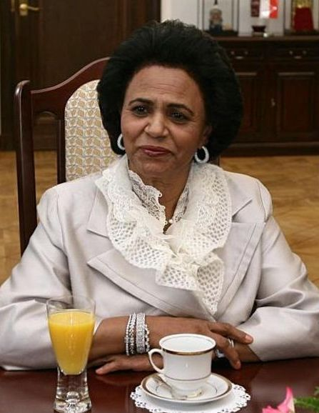 Sheikha Fariha al-Ahmad al-Jaber al-Sahad of Kuwait in the Polish Senate